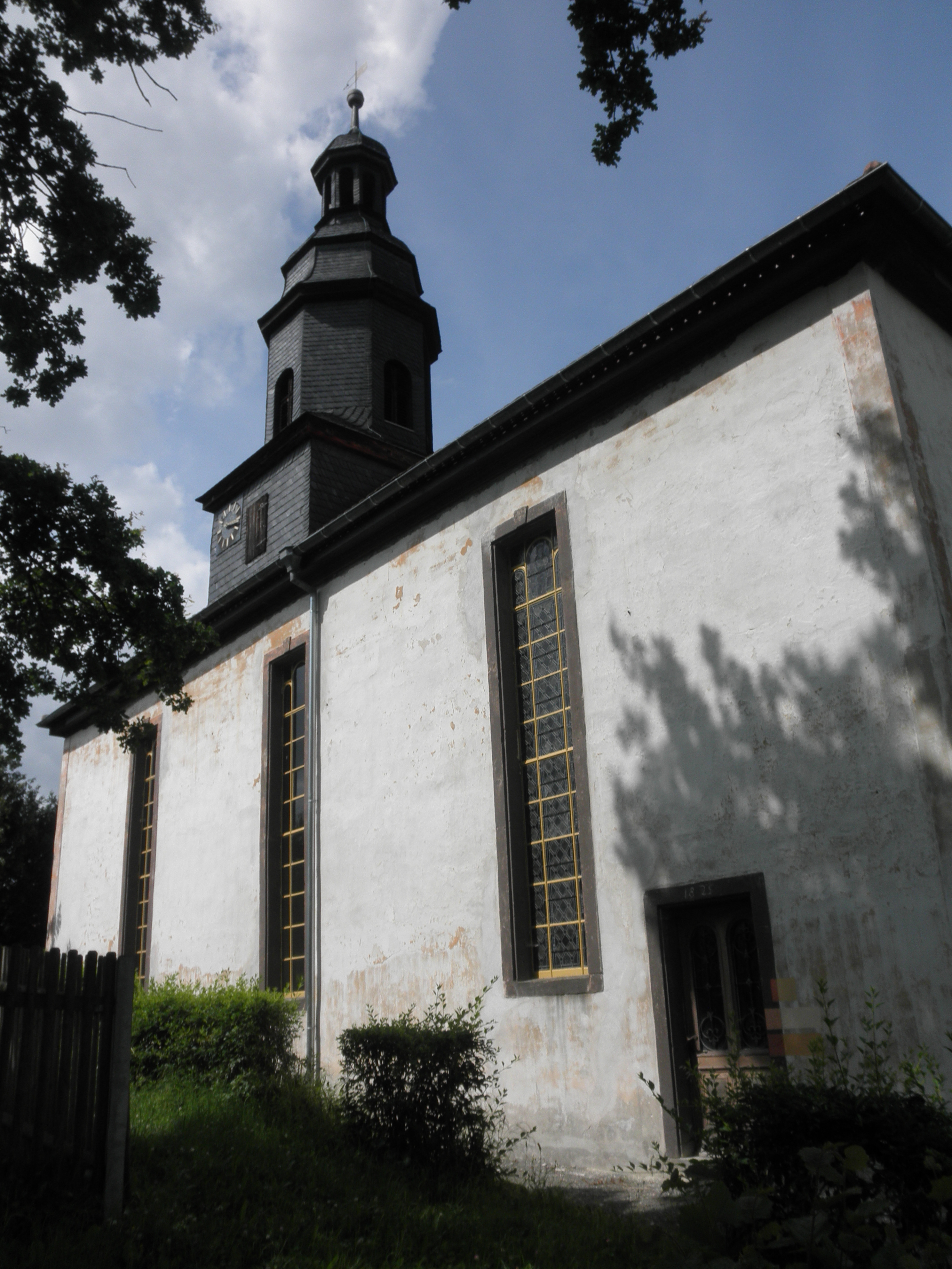 Church in Trockenborn in Thuringia